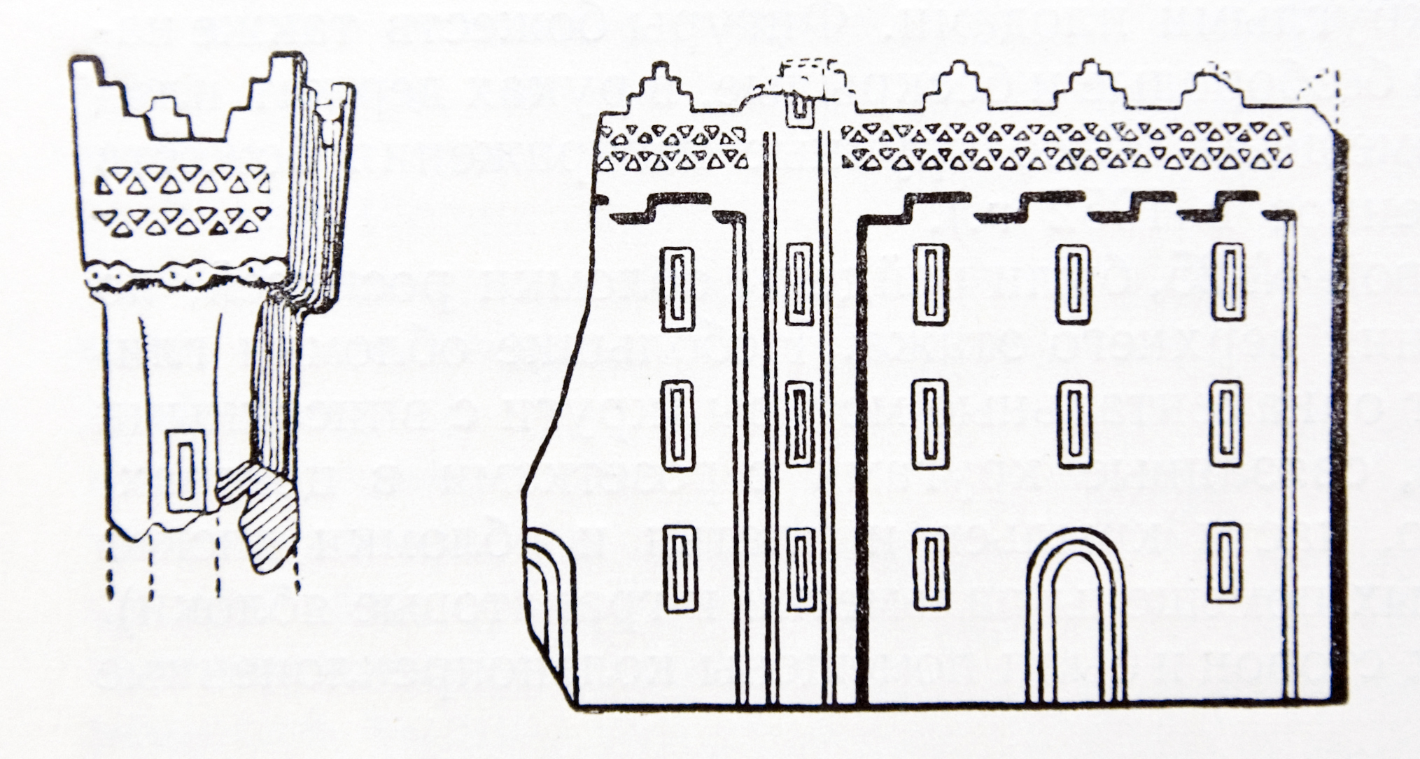 Drawing of Tushpa Wall based on Urartian artifact.